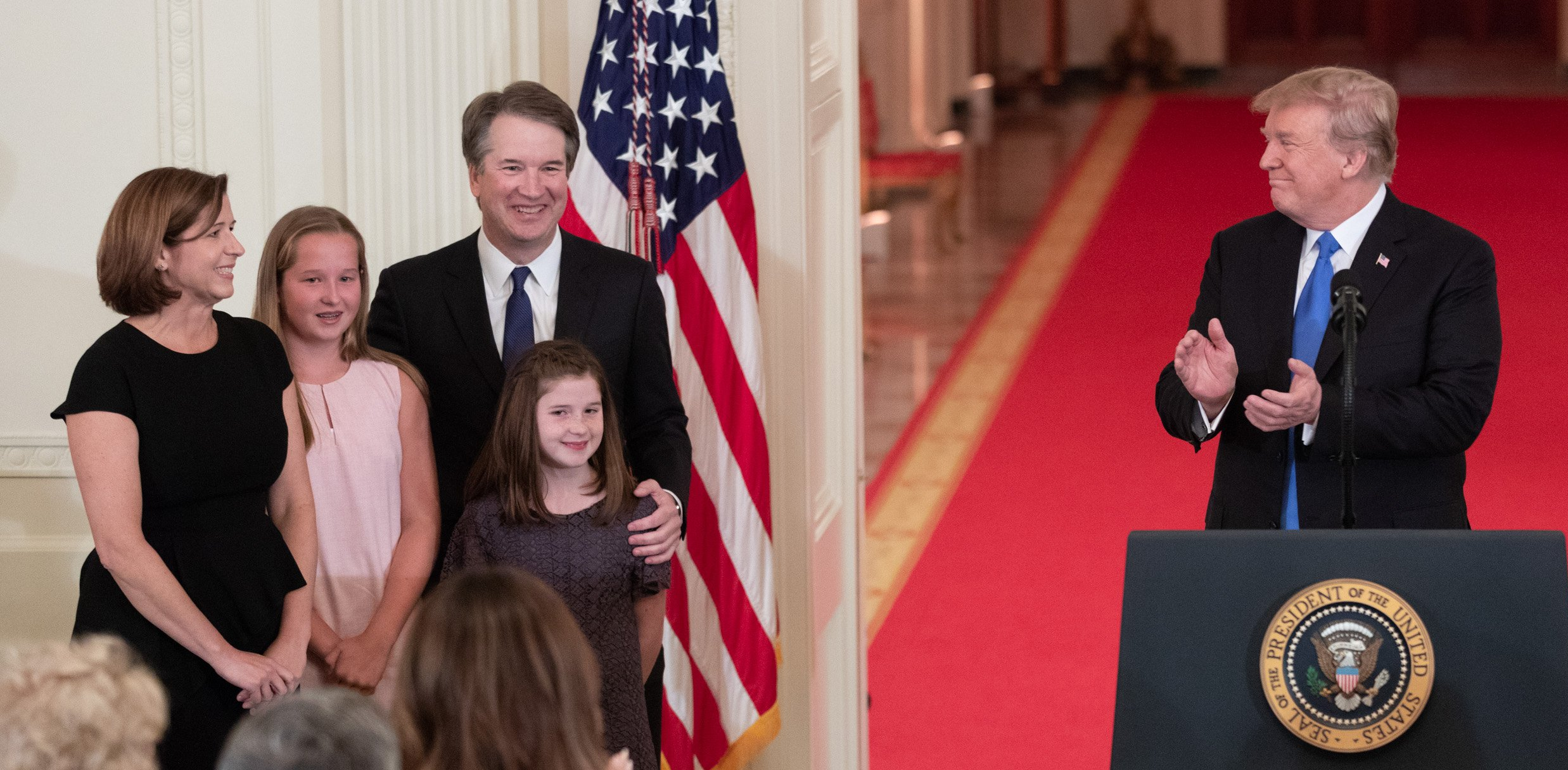 President Trump nominates Judge Brett Kavanaugh for the U.S. Supreme Court.